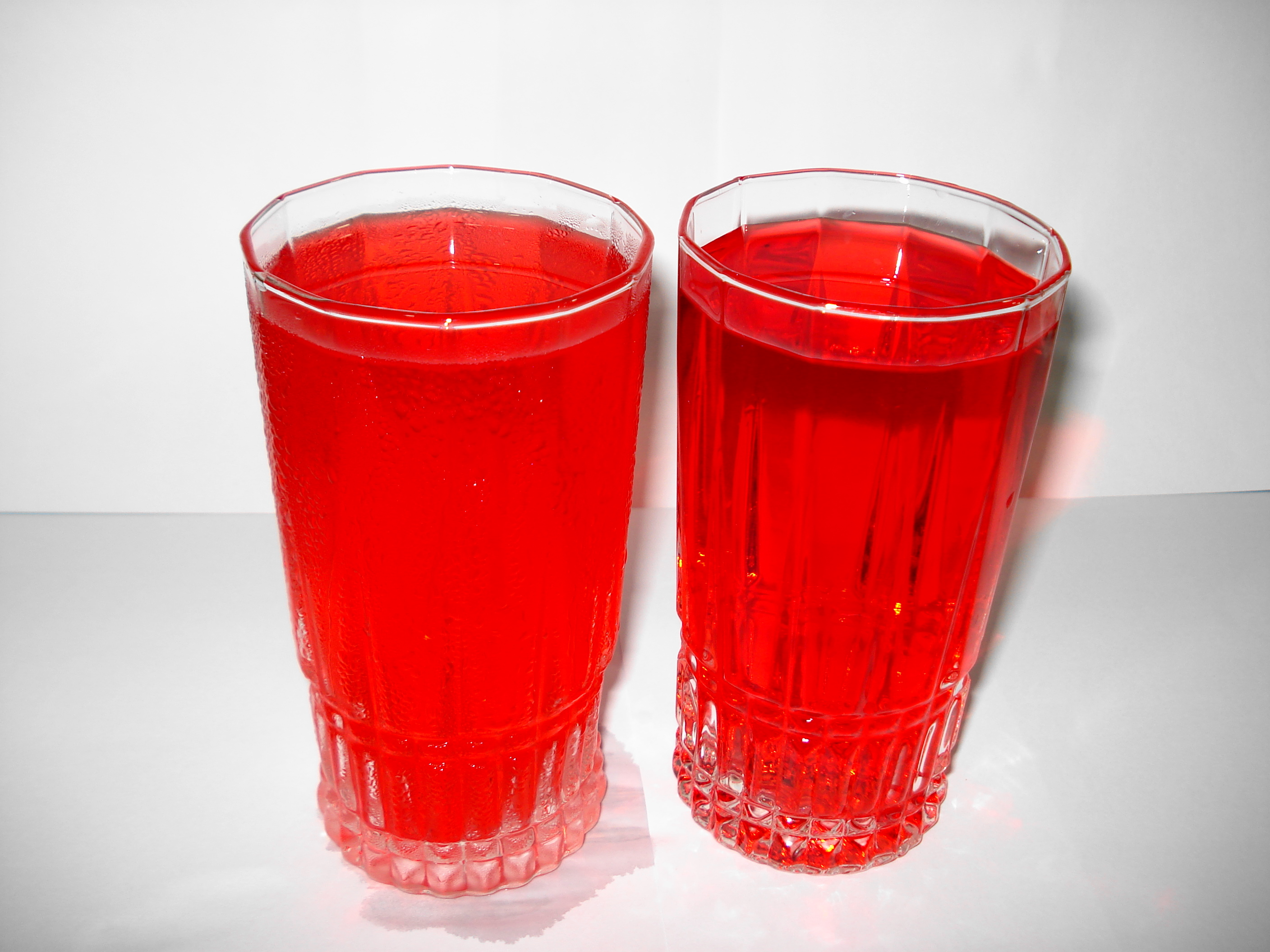 Rooh Afza, Naurus, jam e Shireen or simply Lal Sharbat or Red Syrup of the East